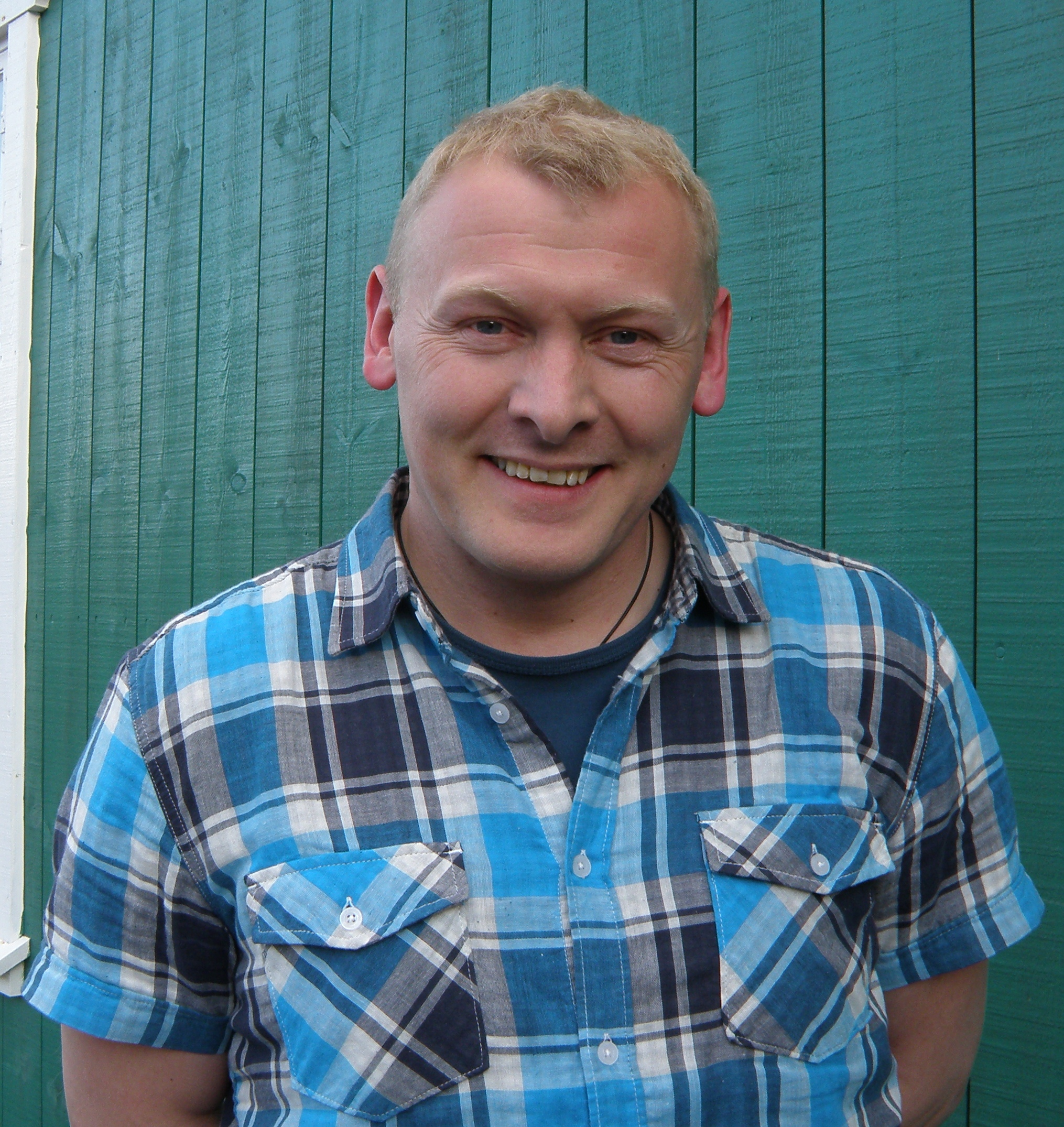 Livar Nysted is a Faroese ocean rower. In 2010 he crossed the North Atlantic Ocean in the rowing boat Artemis Investments together with three other rowers. They sat two records: 'longest distance rowed in 24h in an ocean rowing boat" at 118miles and they broke an old record from 1896 which was set by two Norwegian men, when they managed to row from New York to the Scilly Isles in the UK in 55 days. Livar Nysted and his friends managed to row the same distance in 44 days. They were four though and the Norwegians were two, but no other rowing boat had broke that record before the four men broke it in July 2010. Livar Nysted is also and artist, a painter. Føroyskt: Livar Nysted er føroyskur hav rógvari. Saman við trimum øðrum monnum róði hann úr New York til Scilly Oyggjarnar á 44 dagar, sum var nýtt heimsmet. Gamla metið var á 55 dagar, og tað áttu tveir norðmenn, og settu teir tað í 1896. Á túrinum settu teir eisini eitt annað heimsmet, sum tann róðrarbátur ið hevði róð longsta teinin í eitt samdøgur. Teir róðu 118 míl, gamla metið var 117 míl. Áðrenn Livar gjørdist havrógvari, róði hann kapp við føroyskum kappróðrarbátum. Myndin varð tikin uttanfyri Stóra Pakkhús í Vági, tá Livar Nysted helt fyrilestur har.